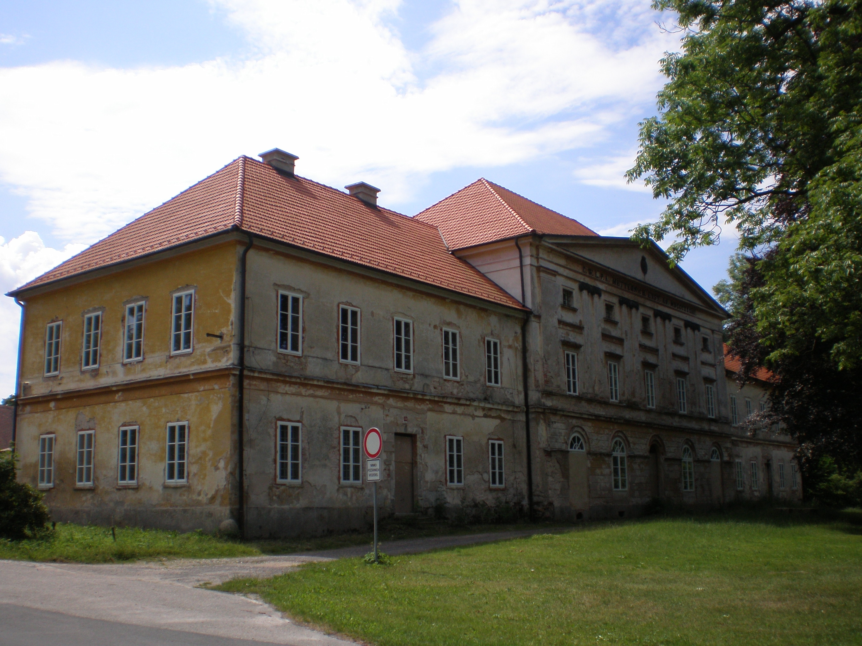 Castle Kyžvart, Czech Republic, farm building (2008)